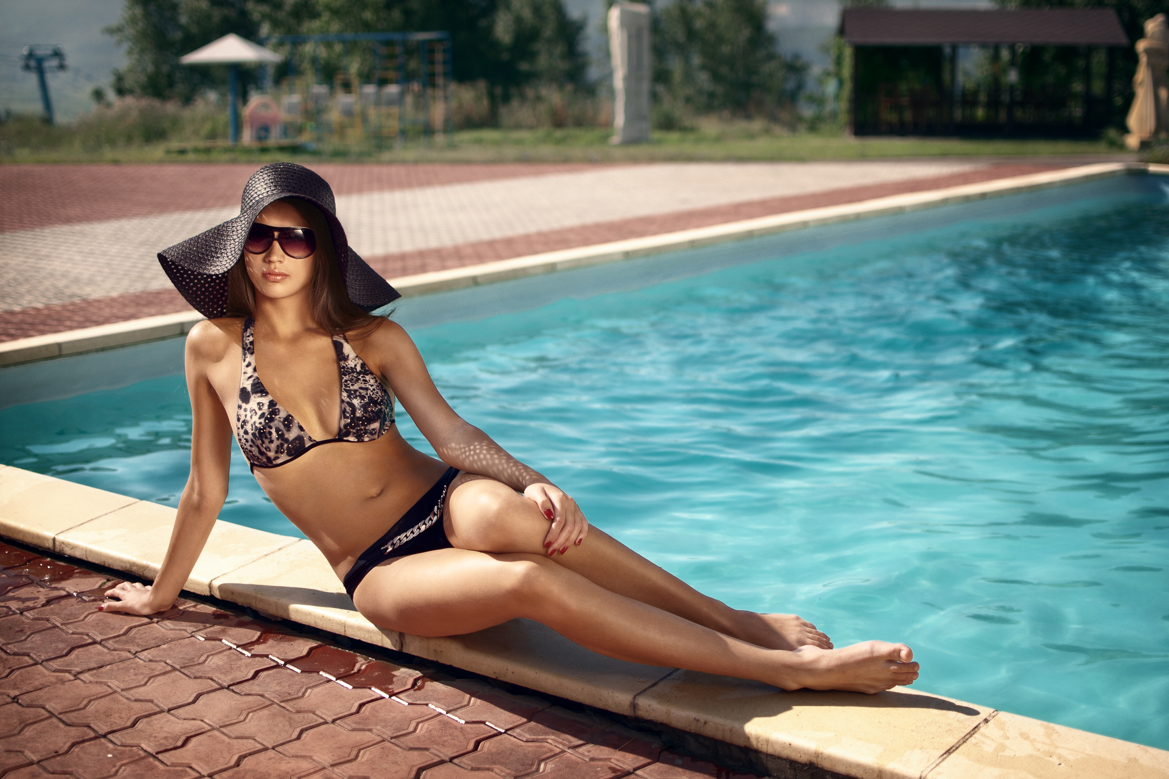 Woman next to a pool.